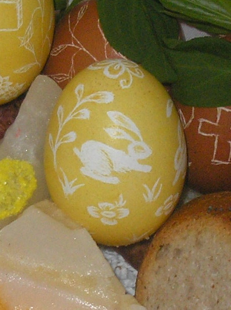 A Polish Drapanka, dyed with onion skins and etched with a craft knife.